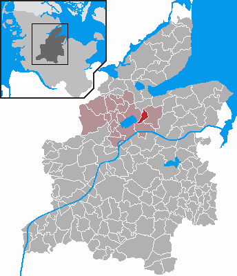 Locator maps of municipalities in Schleswig-Holstein - District Rendsburg-Eckernförde